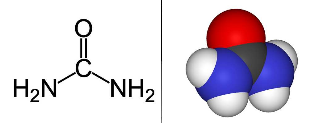 Combination Urea 2D and Urea 3D